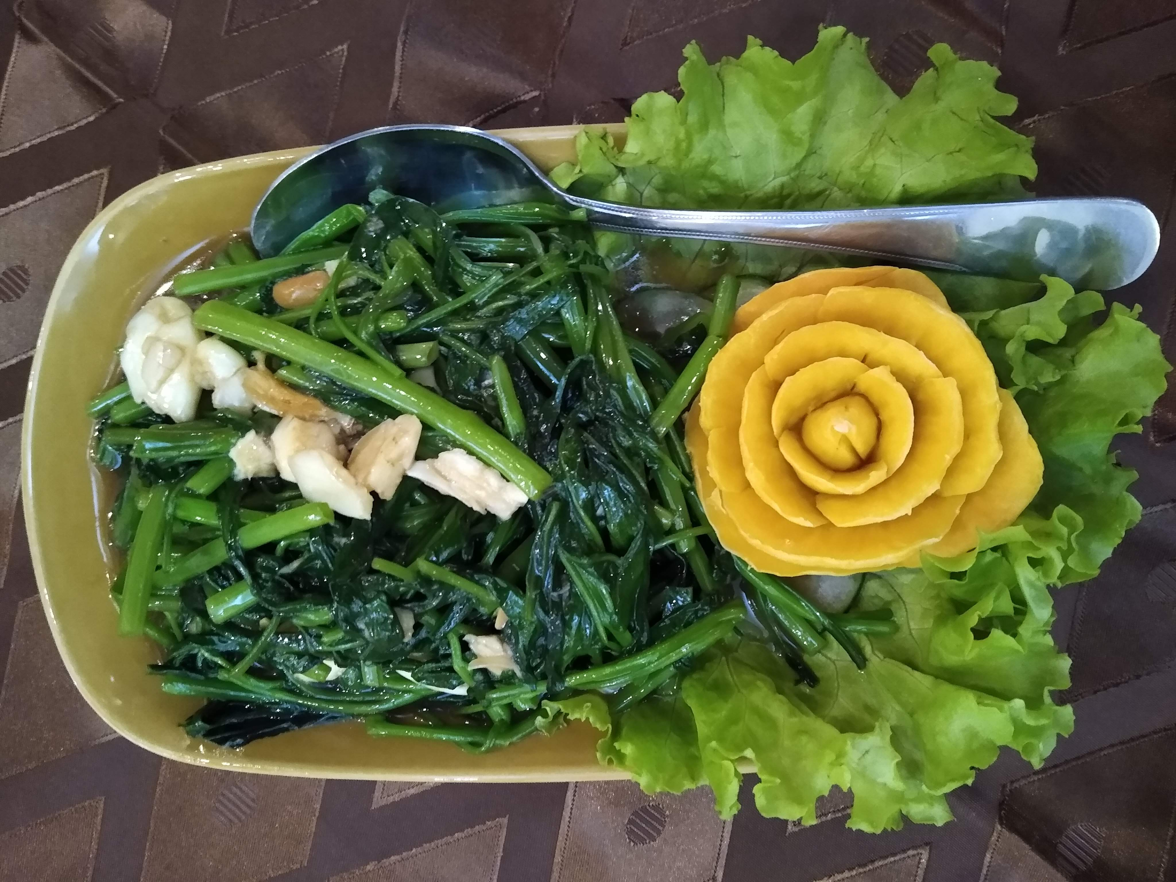 Stir fried morning glory (ຂົ້ວຜັກບົ້ງ) at Kualao Restaurant in Vientiane, Laos.